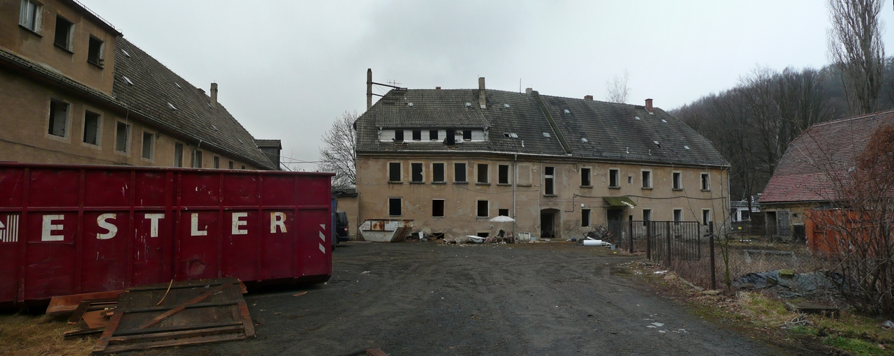 Pirna-Südvorstadt: demolition of the old fulling mill (waulking mill).